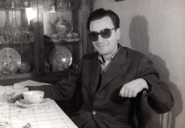 Joan Brossa assegut a una taula amb ulleres de sol Format: digitalització fotografia blanc i negre